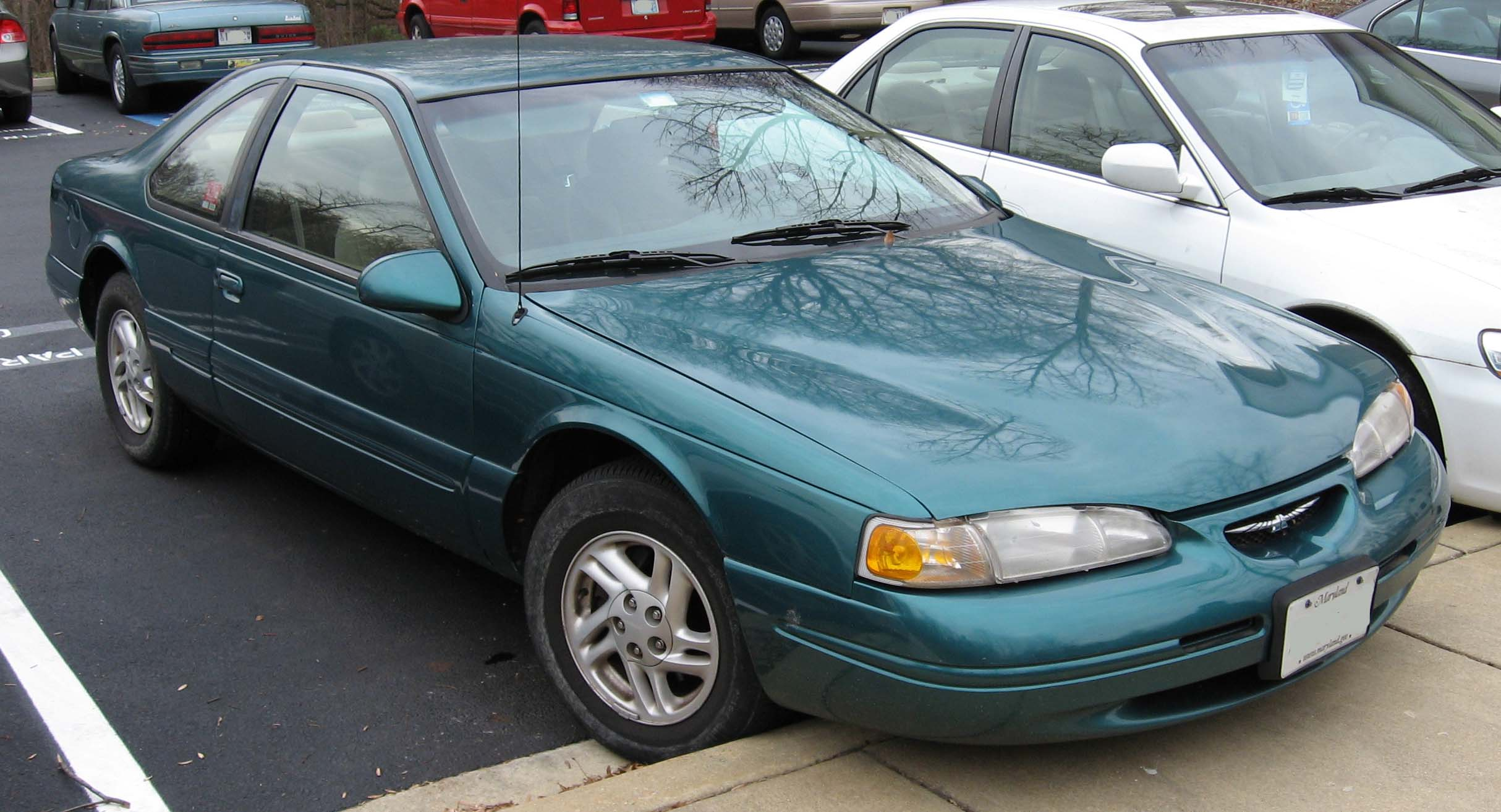 1995-1997 Ford Thunderbird photographed in USA.